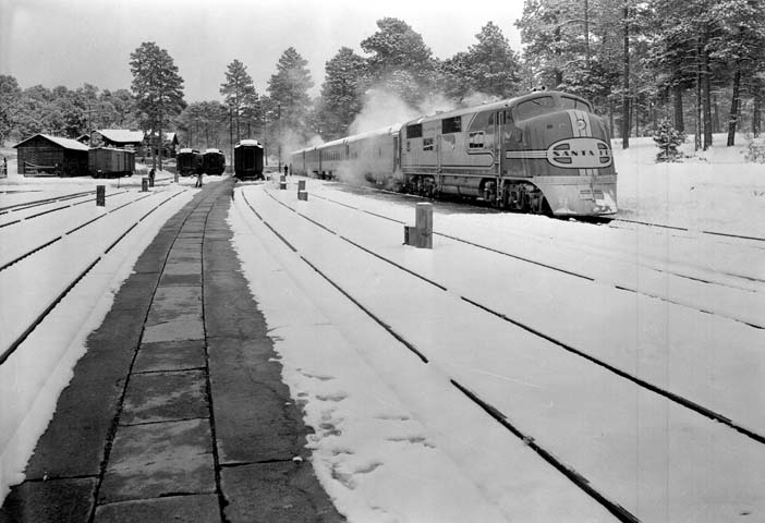 OVERVIEW: SANTA FE TRAIN "EL CAPITAN" IN STATION AT GRAND CANYON DURING FIRST LOS ANGELES TO CHICAGO RUN. SNOW. 19 FEB 1938 NPS PHOTO. Grand Canyon National Park Museum Collection, P.O. Box 129, Grand Canyon, AZ 86023